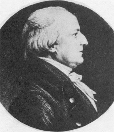 Portrait of